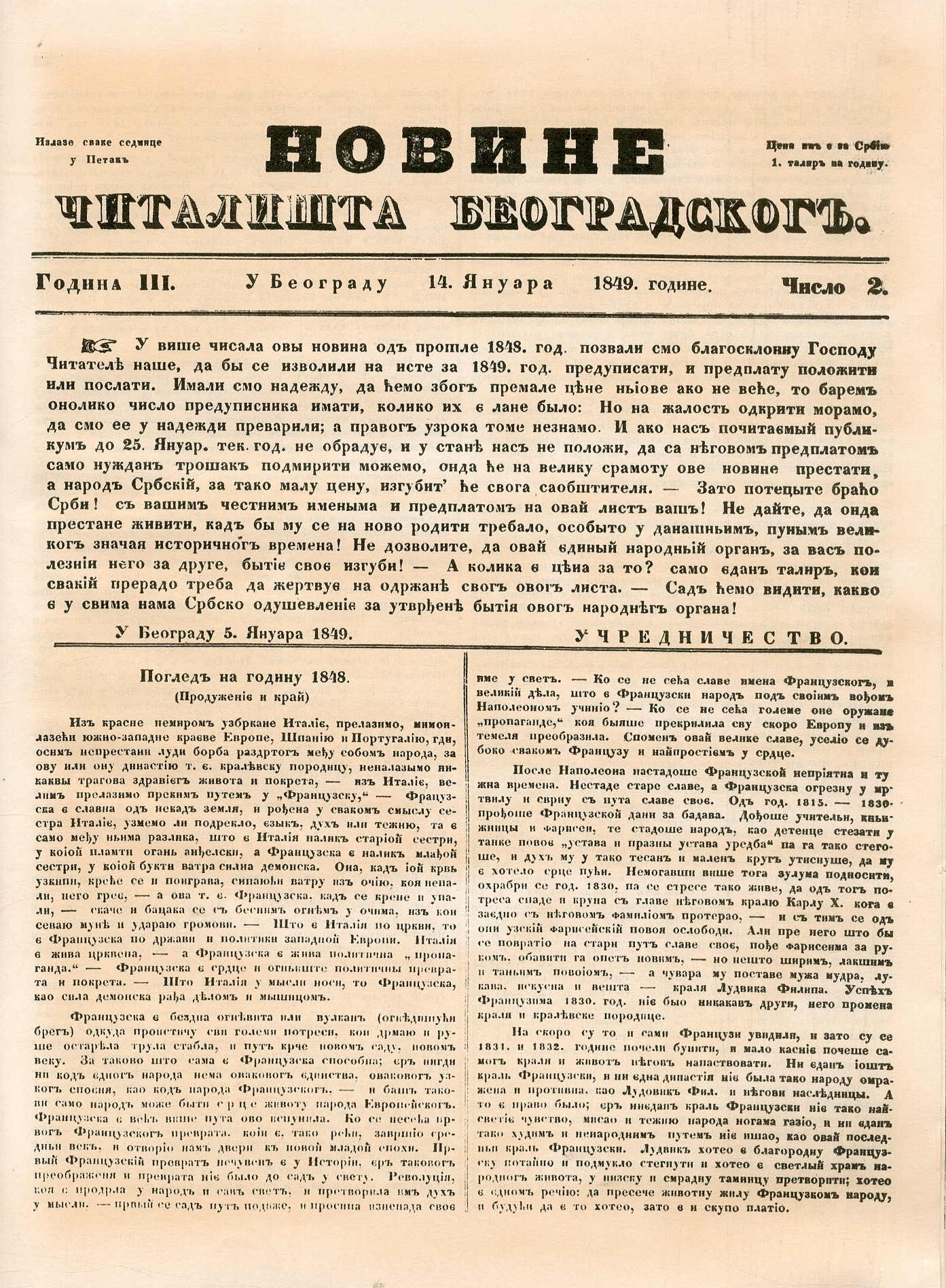 Number from 1849.